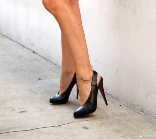 Black Christian Louboutin slingback stiletto platform pump shoes on feet